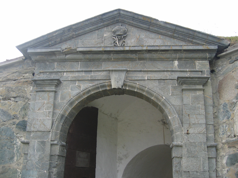 Kristiansten Fortress in Trondheim, Norway